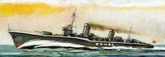 Painting of the Imperial Japanese Navy destroyer Tokitsukaze, a Kagerō-class destroyer of the Imperial Japanese Navy.